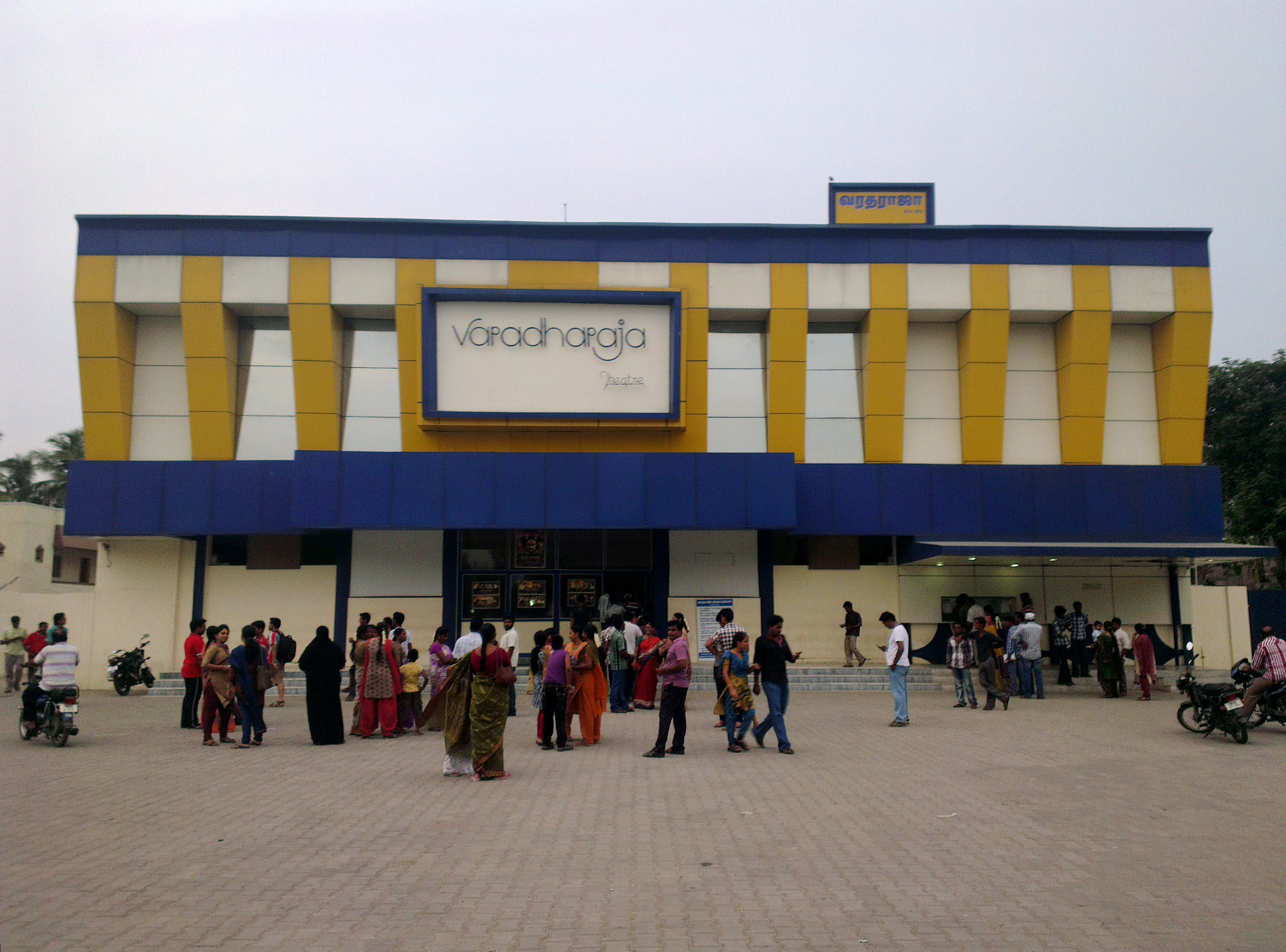 a cinema theatre in chitlapakkam Chennai